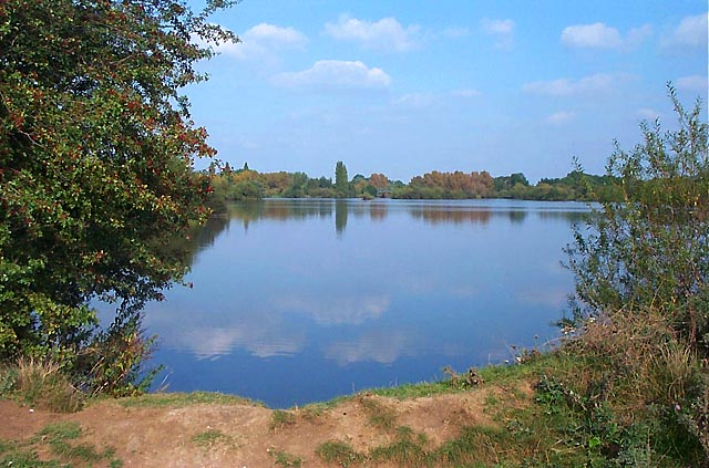 Attenborough Nature Reserve. Now a Nature Reserve, this was formerly a gravel pit.